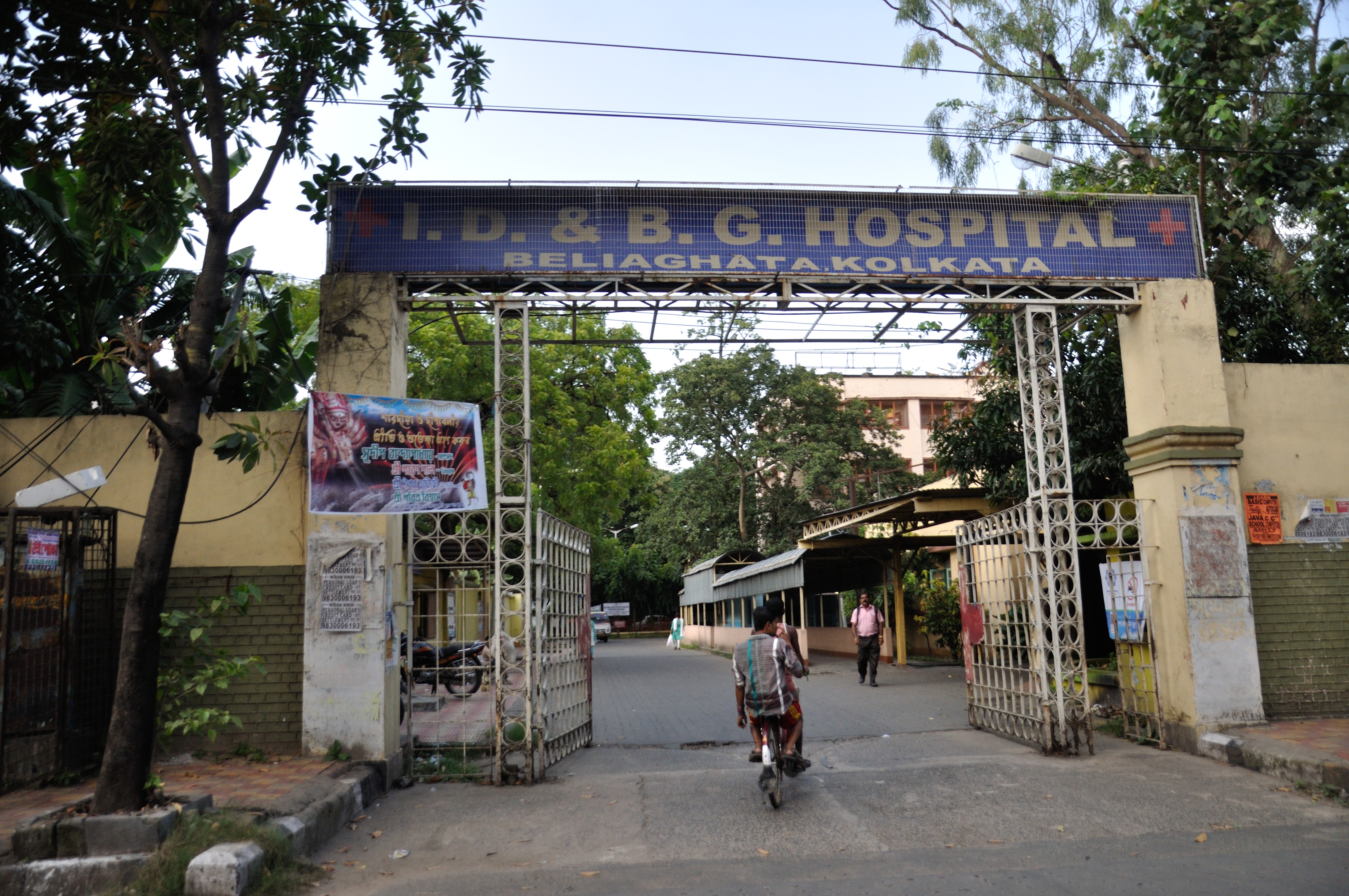 This photograph was taken in Kolkata.